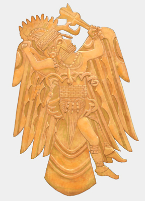 Reconstruction of the"Mangum Plate", one of two repousséd plates of beaten copper found in the Plaquemine culture Mangum Mounds Site in Claiborne County, Mississippi. The plate gives its name to the"Mangum Flounce"motif of the Southeastern Ceremonial Cmplex"Birdman / Chunkey player", a disticntive feature of the apparel of the figure.